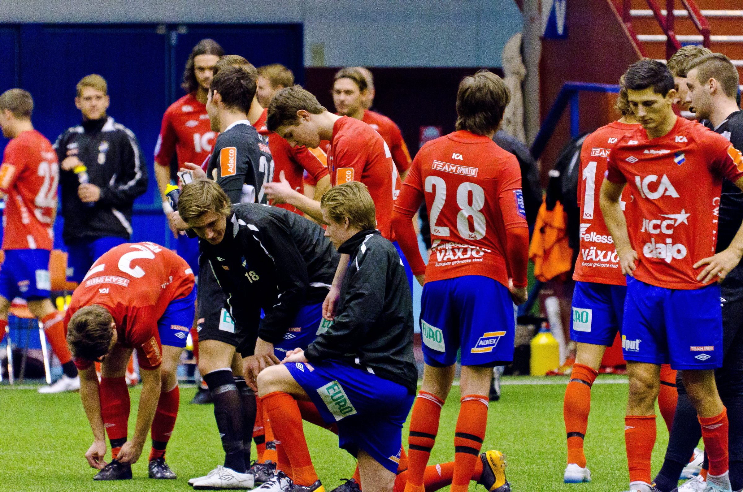 The players of Östers IF preparing for an early 2012 pre-season game.